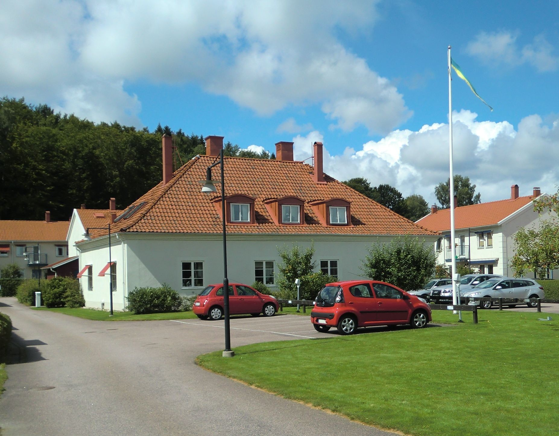 Former swedish long wave reception-station Kungsbacka radio, now private apartments, in Kungsbacka south of Gothenburg.